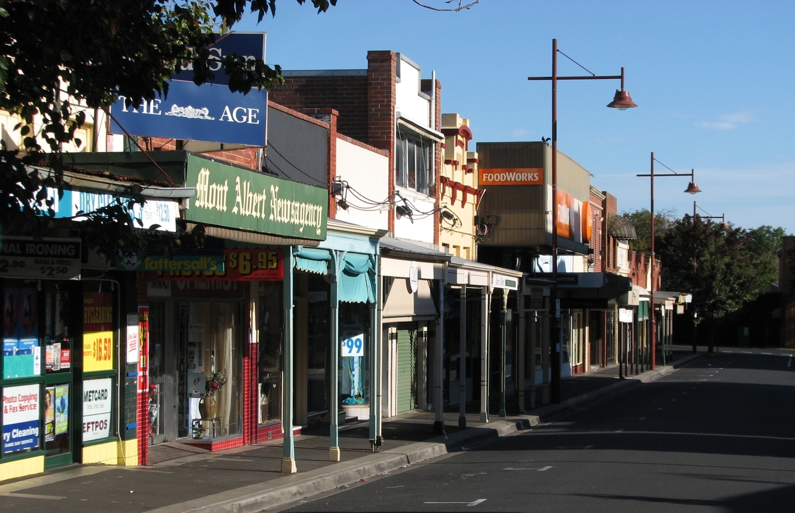 Hamilton Street, Mont Albert, Victoria, Australia